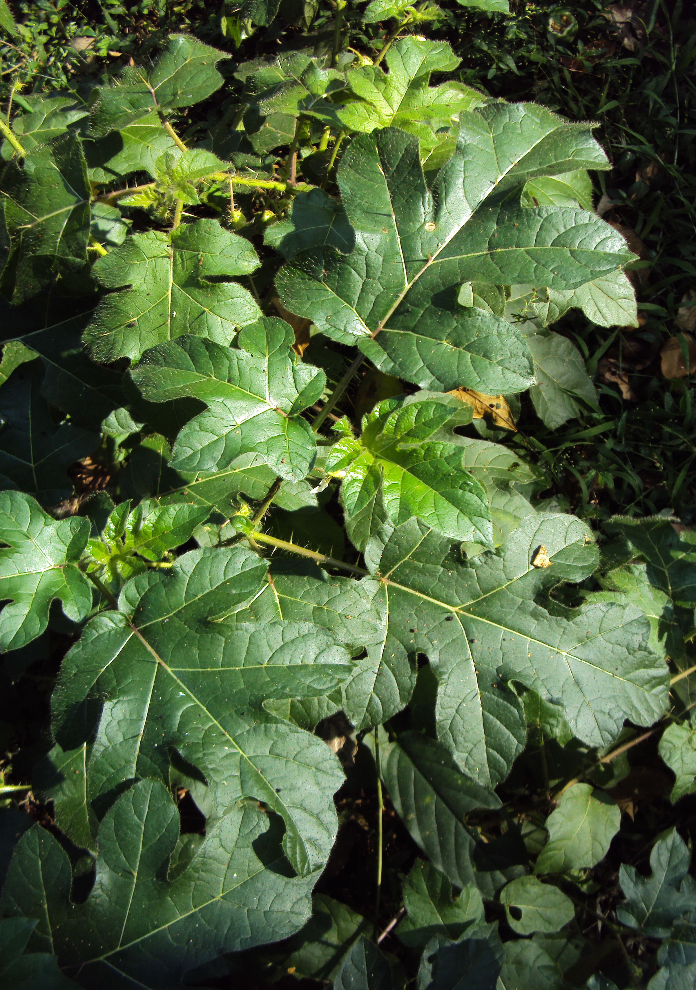 Solanum aculeatissimum